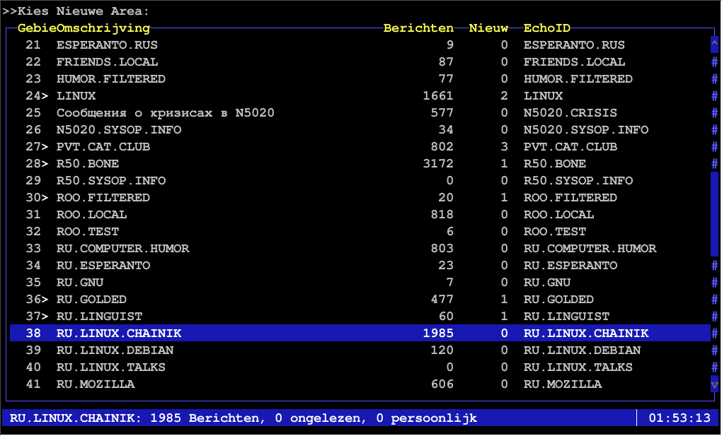 GoldED+, built from source code snapshot of 2006-03-27. Area list. goldlang.nl, Dutch translation by Cees Schouten and Kees Bergwerf